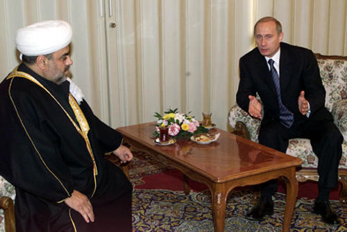 BAKU. President Vladimir Putin and leader of Azerbaijani Muslims Sheikh-ul-Islam Khadji Allahshukyur Pashazade.